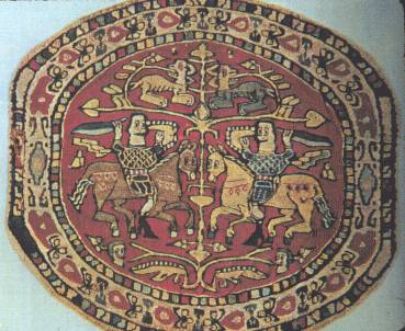 Wool on linen textile decorative rondel with two horsemen, 6th c. A.D. Syrian or Egyptian Coptic. (New York: Copper Union Museum). Above are lions flanking a hom. Design was copied from a silk textile.